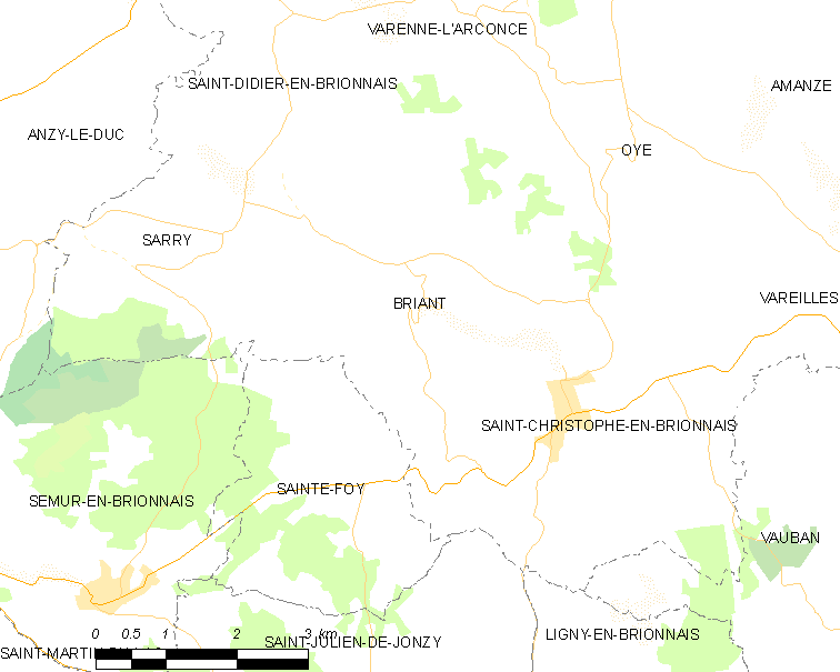 Map of French municipality